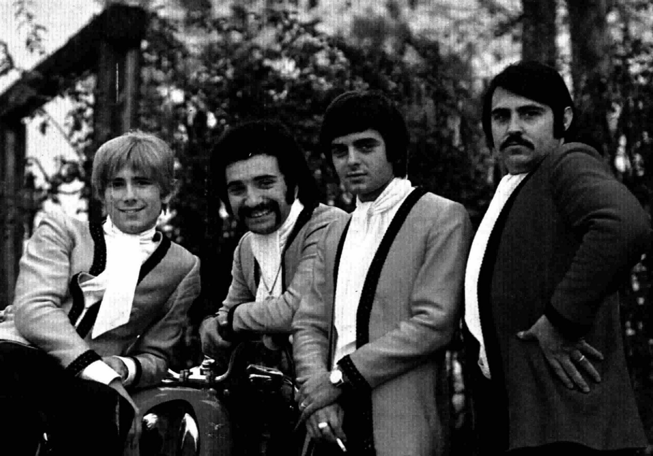 Italian band Camaleonti poses for the magazine